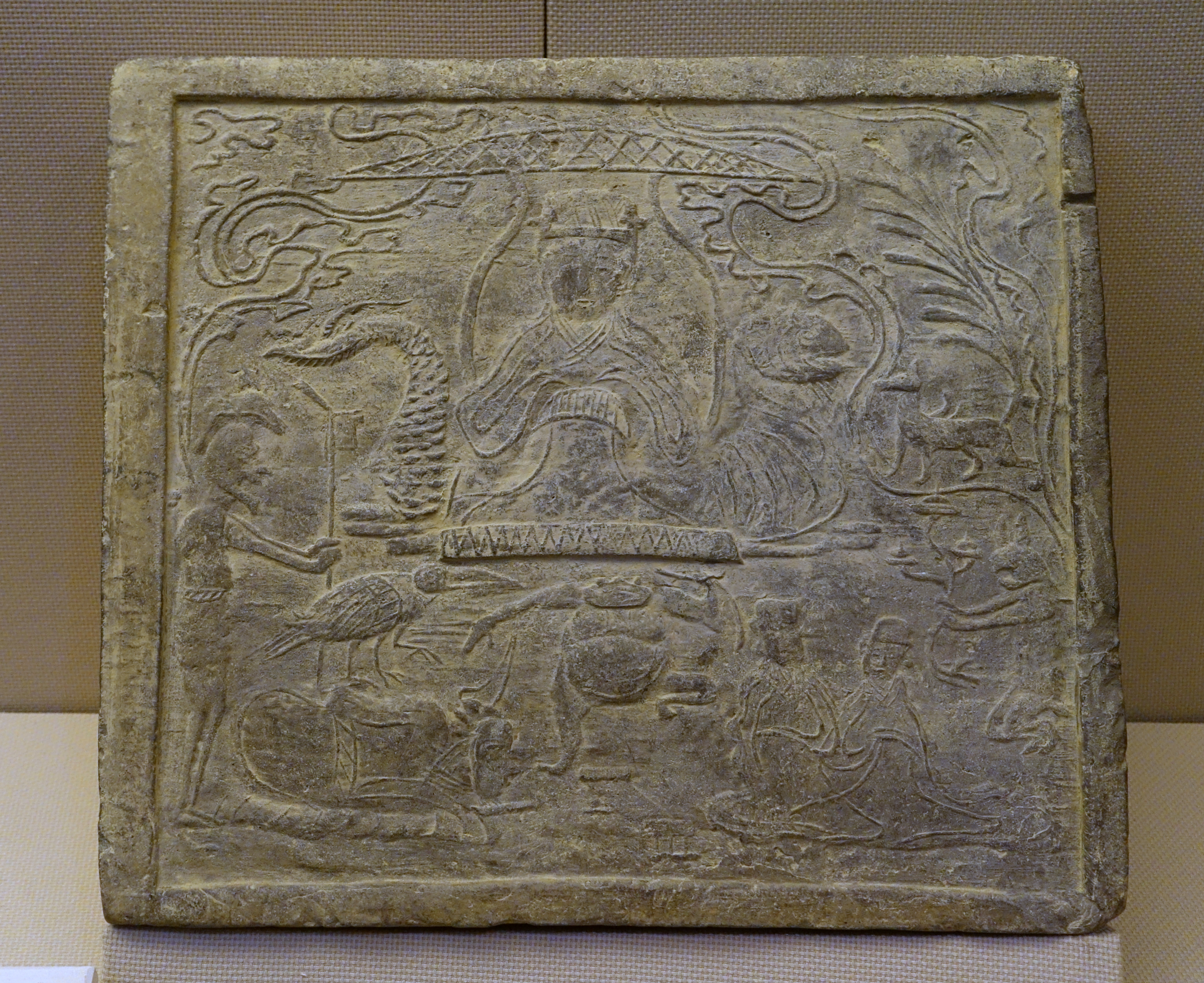 Exhibit in the Sichuan Provincial Museum (四川省博物院), also known as the Sichuan Museum, 251 Huanhua S Road, Chengdu, Sichuan, China. This work is old enough so that it is in the public domain.